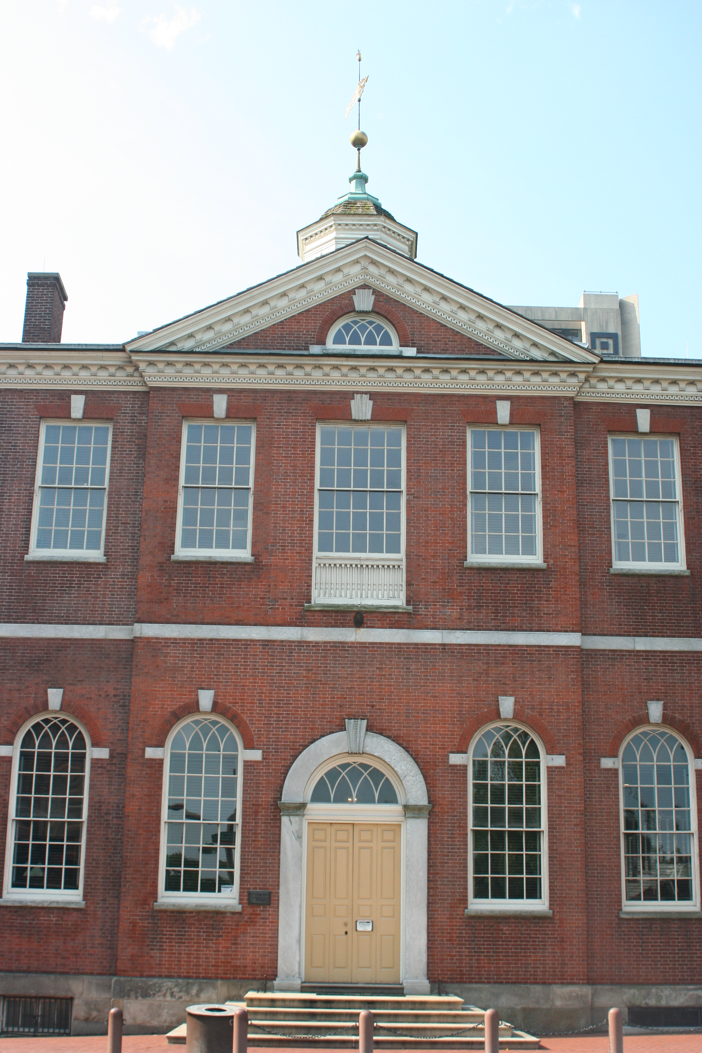 Front of Old City Hall Supreme Court building in Philadelphia, PA